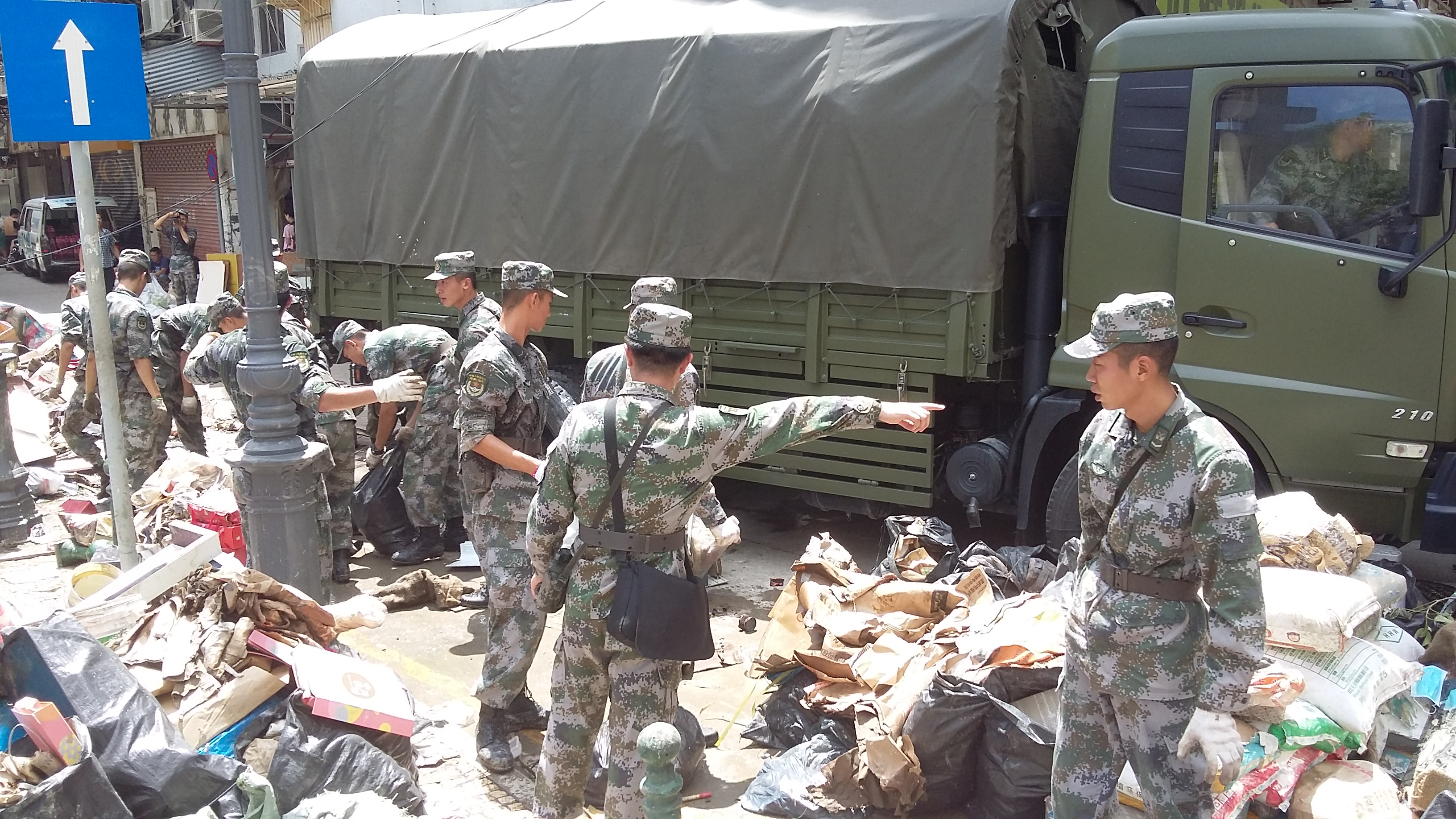 Second day after the storm, at Freguesia da Sé. PLA cleaning out the trash.